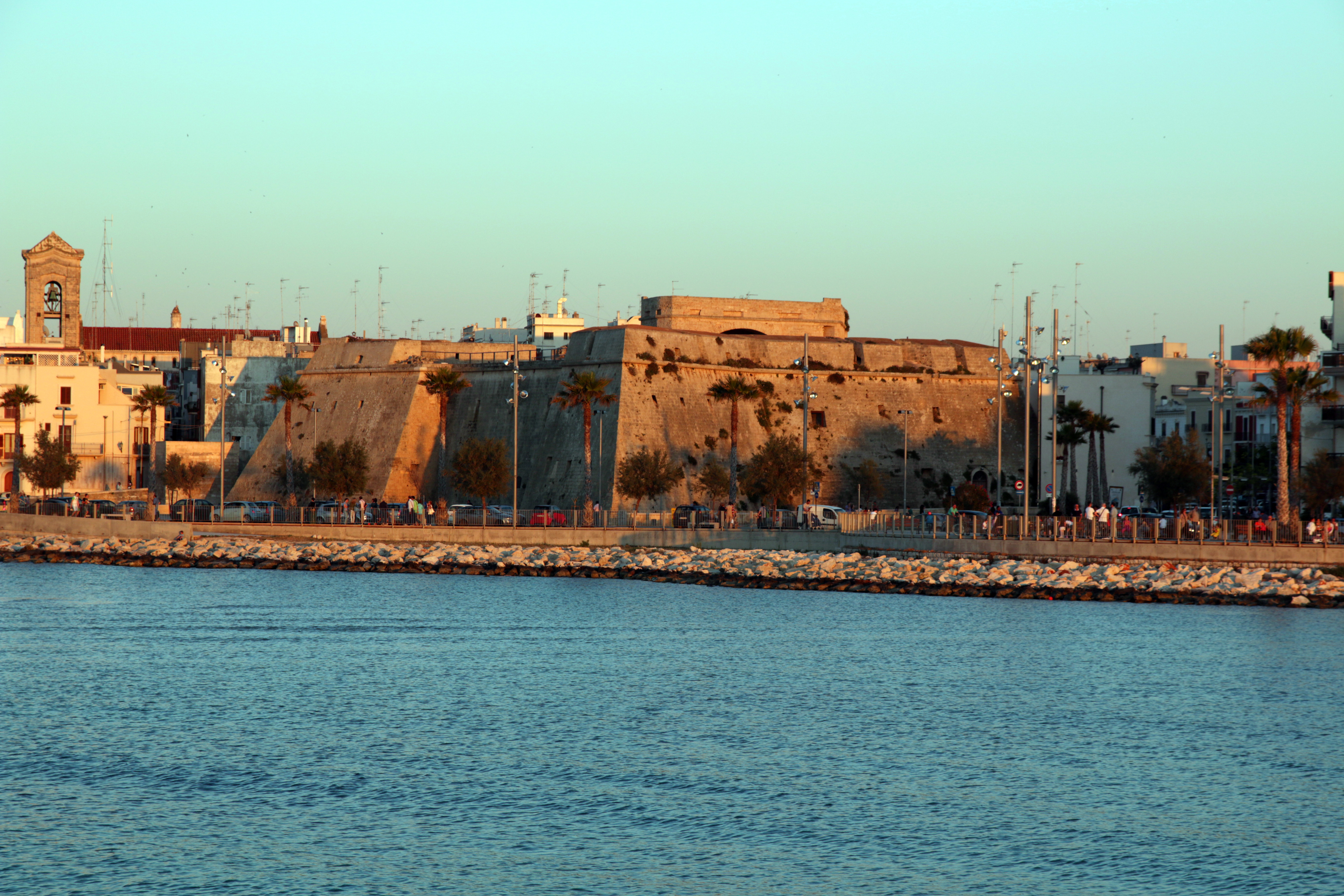 Castello Angioino